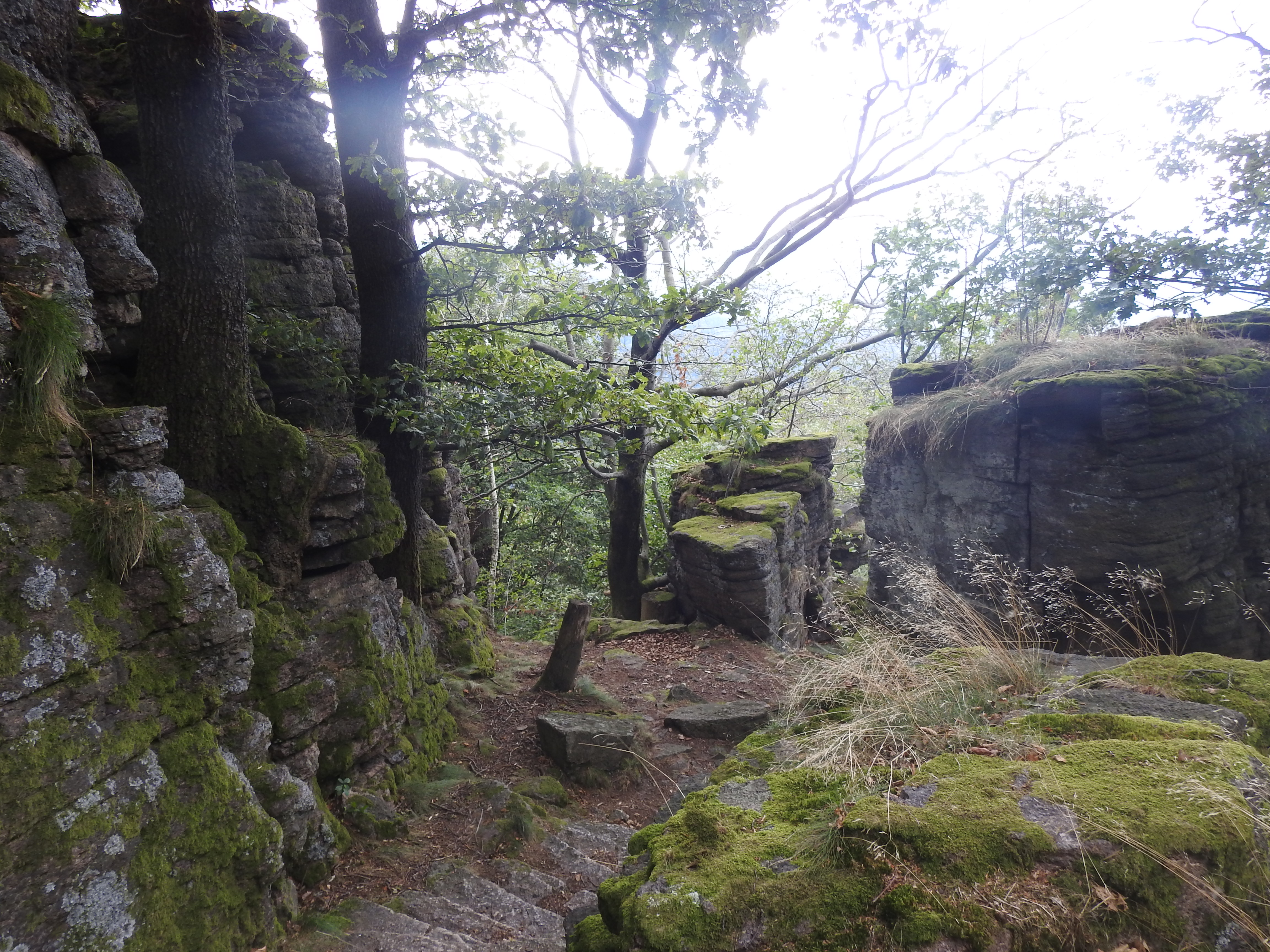 The Battert rocks are a nature reserve in the north of Baden-Baden in the Black Forest. The ruin of Hohenbaden castle is not far away. The Battert rocks is a hiking region with romantic places and a wonderful view of Baden-Baden.